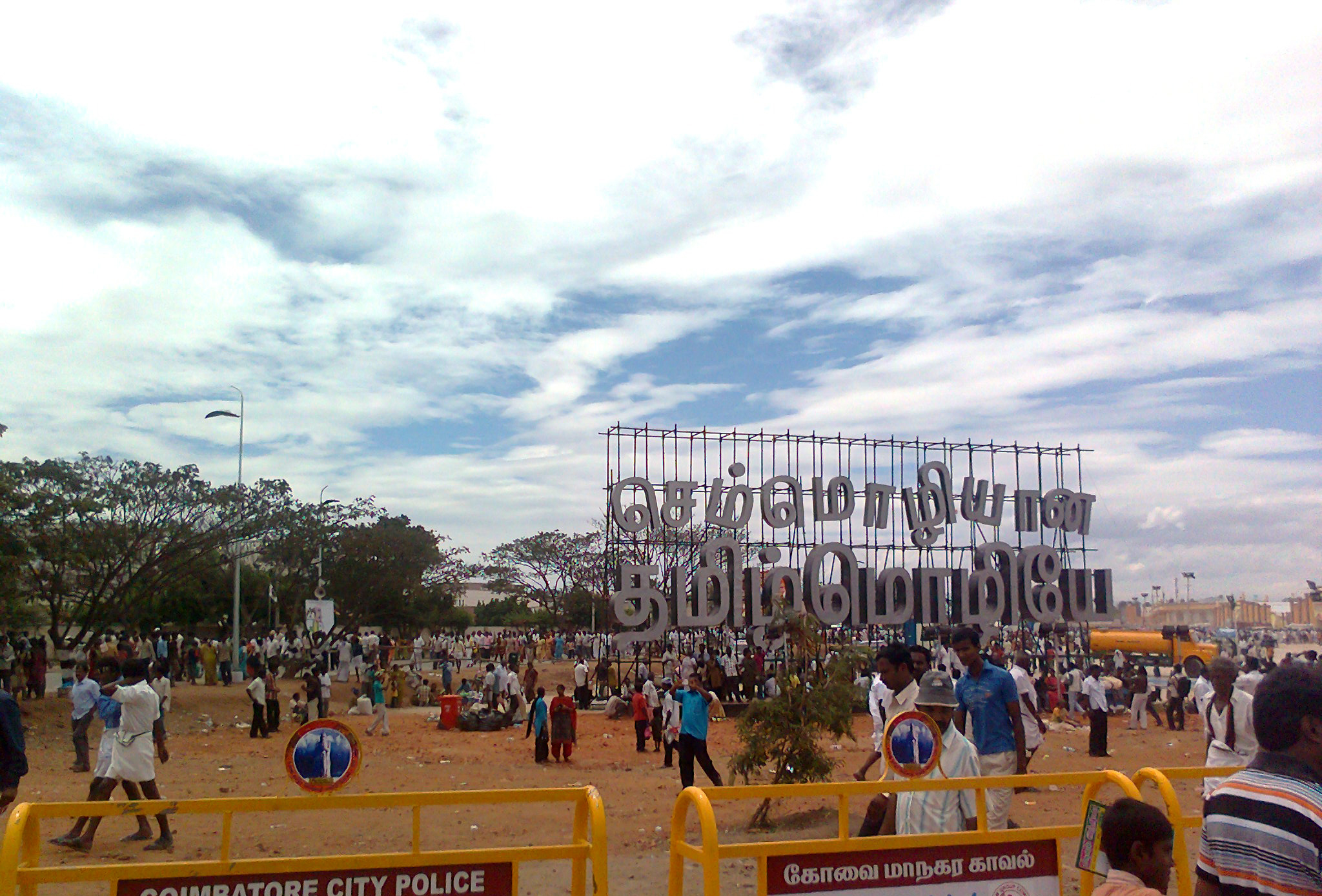 image of world classical tamil conference slogan metal image view